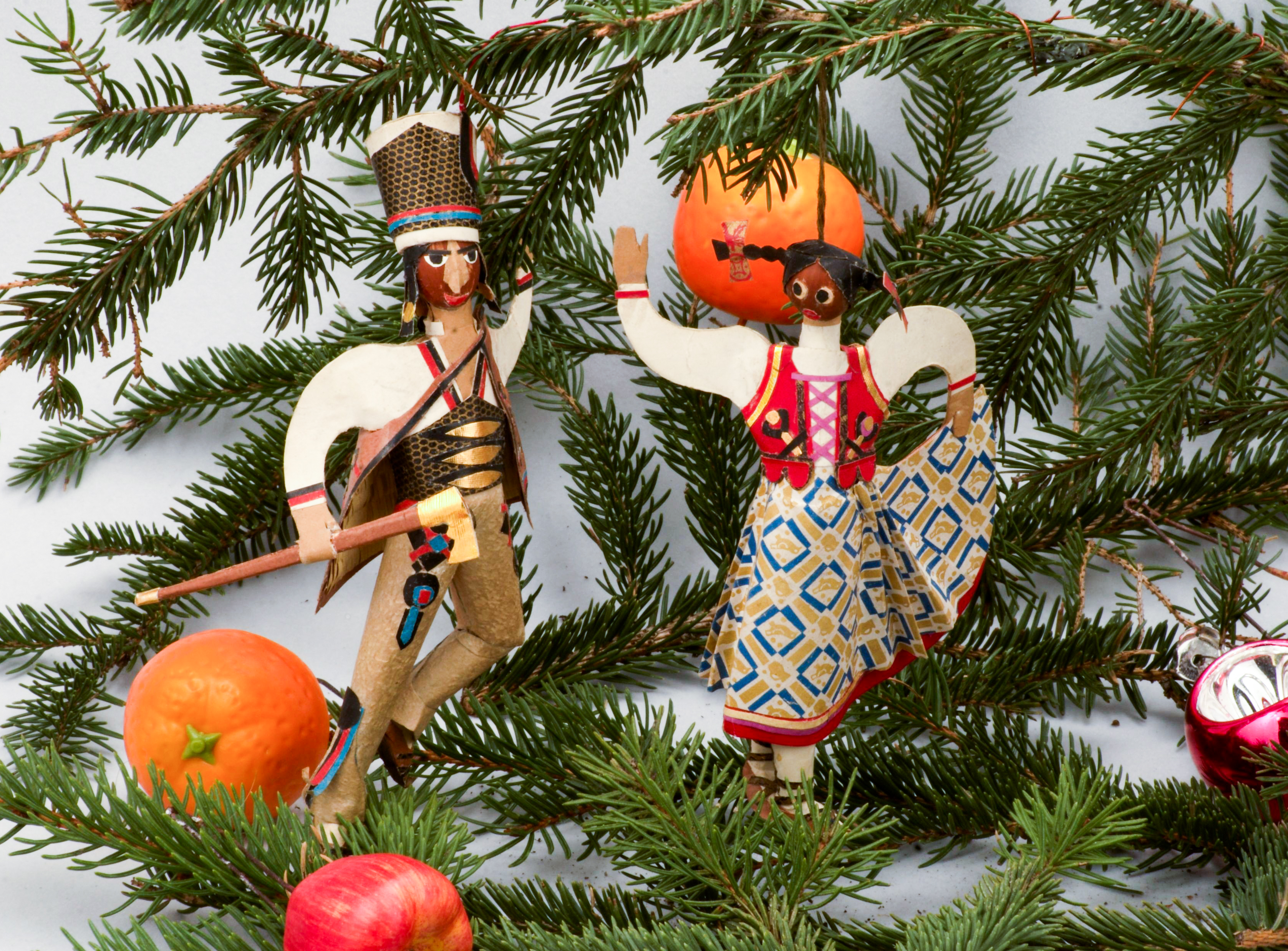 Christmas toys - Janosik and goral - made of paper and hazelnuts by Józef Gosławski.